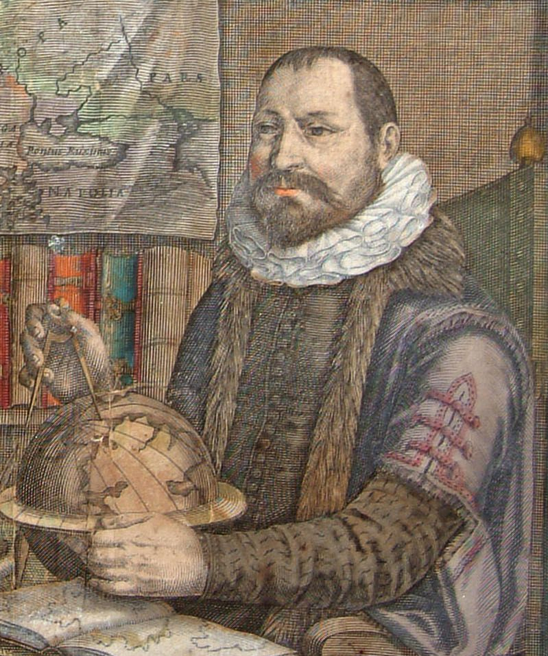 A portrait of the Flemish/Dutch cartographer and engraver Jodocus Hondius (Joost de Hondt; 14 October 1563 – 12 February 1612).